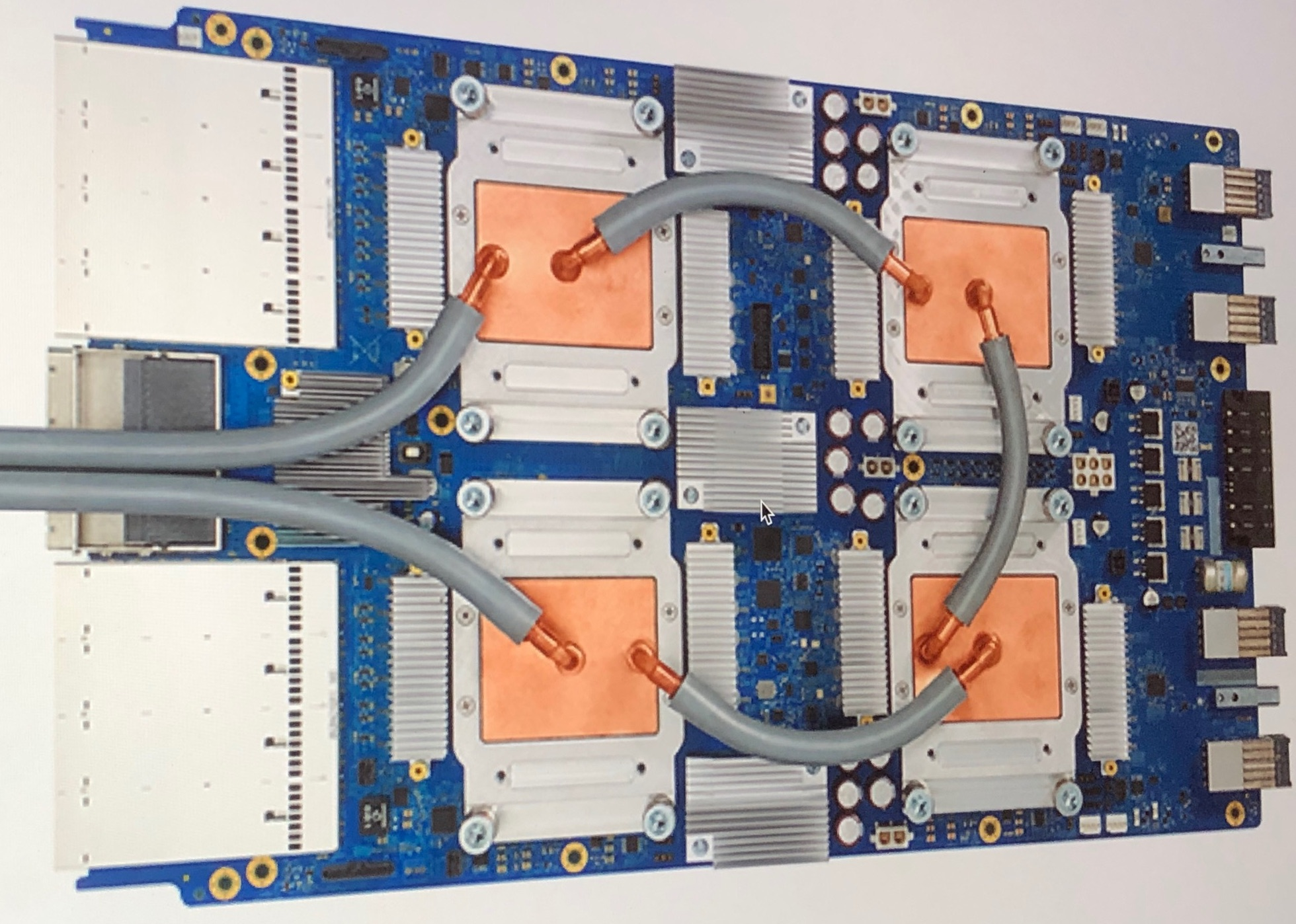 This is a personal photo of a TPU 3.0 device.